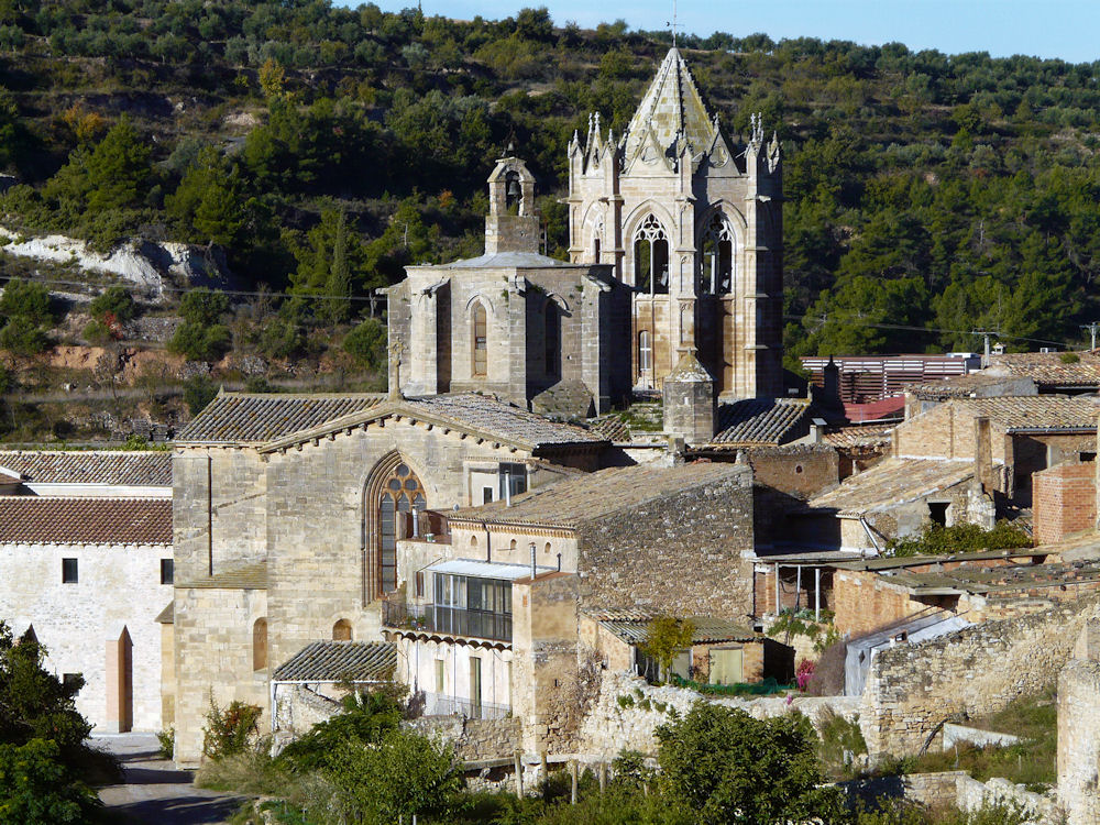 Royal Monastery of Santa Maria is a Cistercian monastery in the municipality of Vallbona de les Monges, Catalonia, Spain